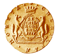 "Siberian coin" from the Suzun Mint, 1777